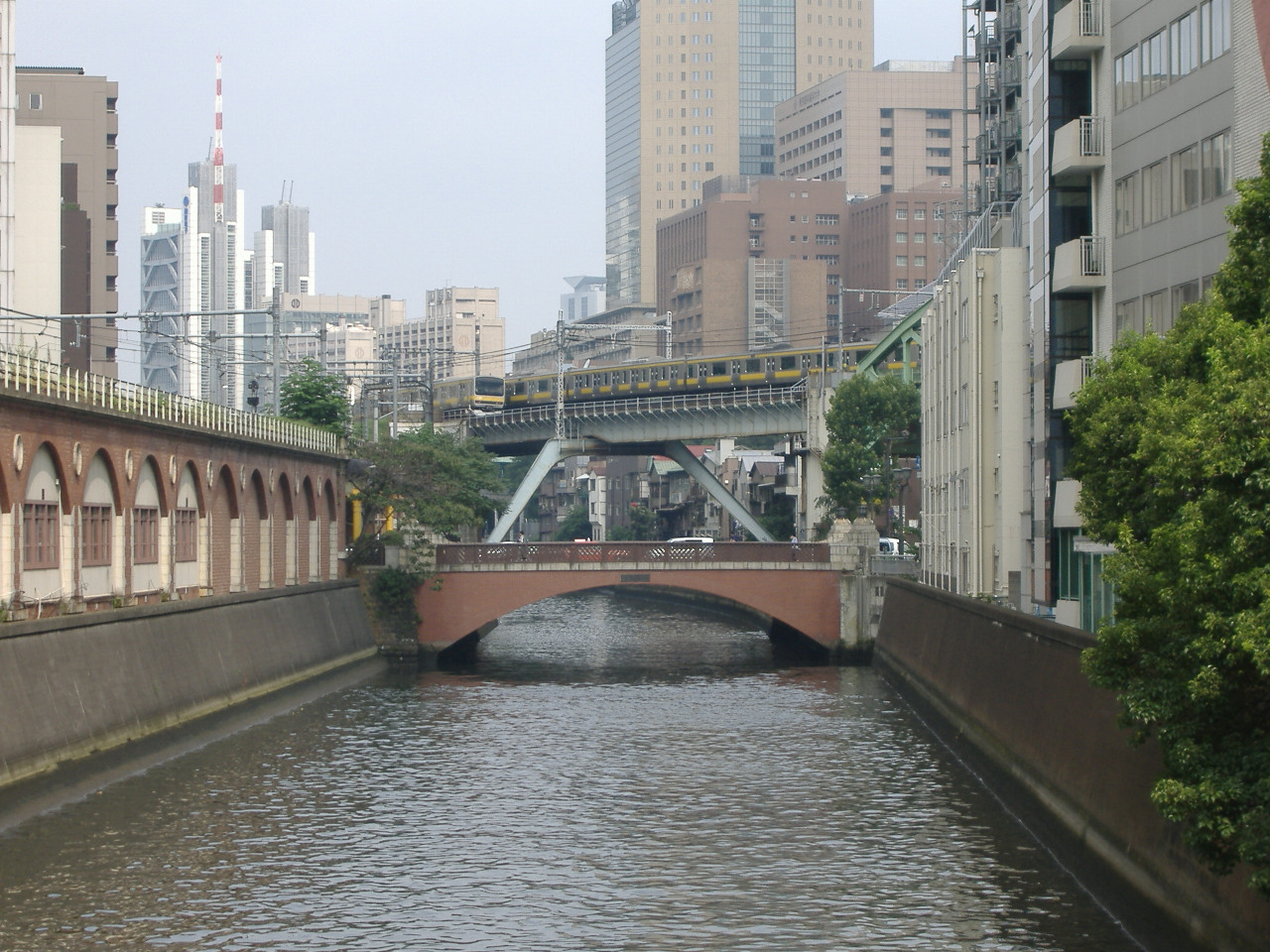 Syouheibashi bridge (Tokyo, Japan)